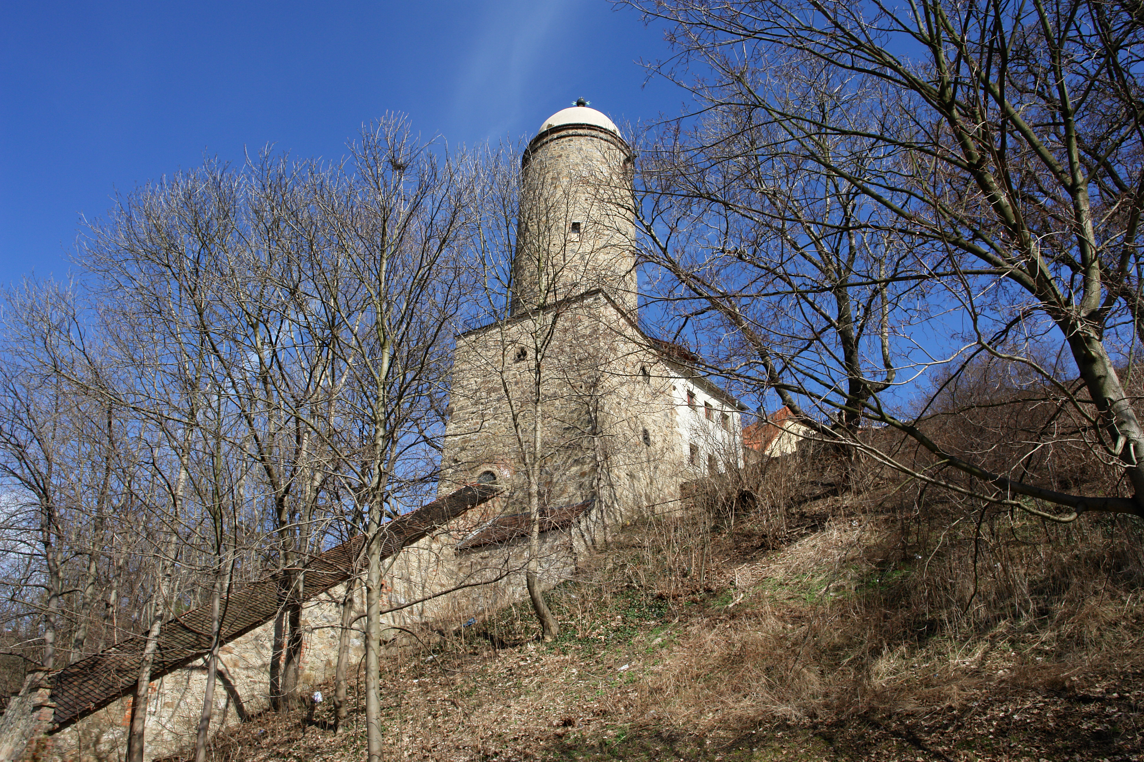 The "Neue Wasserkunst" in Bautzen, Germany.